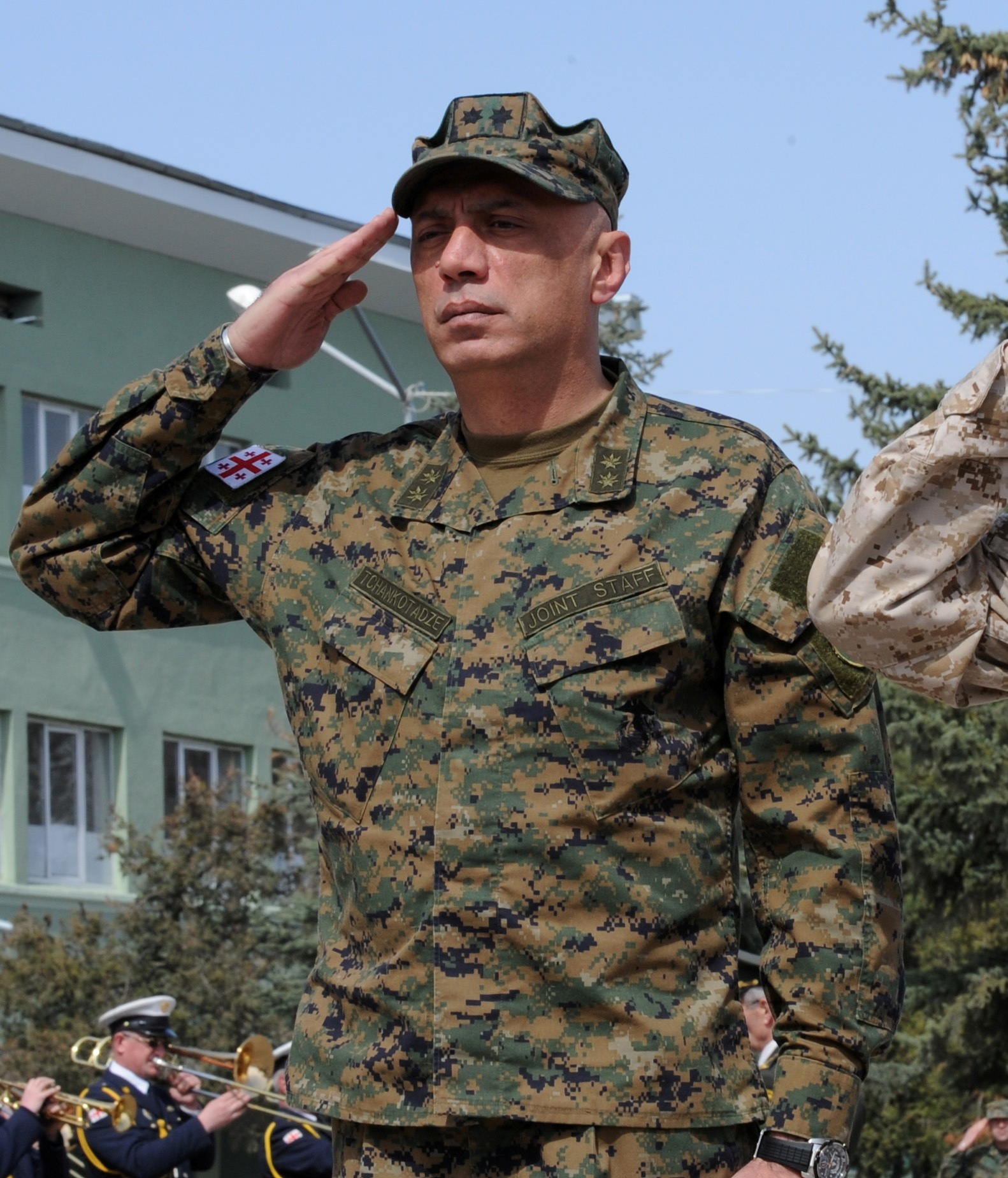 Georgian Chief of Defense Maj. Gen. Devi Tchonkotadze, left, and U.S. Vice Chairman of the Joint Chiefs of Staff Marine Gen. James E. Cartwright salute during a wreath laying ceremony in Gori, Georgia, March 30, 2009. The ceremony was held in honor of Georgian soldiers who died during the Aug. 2008 war with Russia.